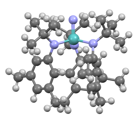 structure of NMo(N(t-Bu)(C6H3Me2)3